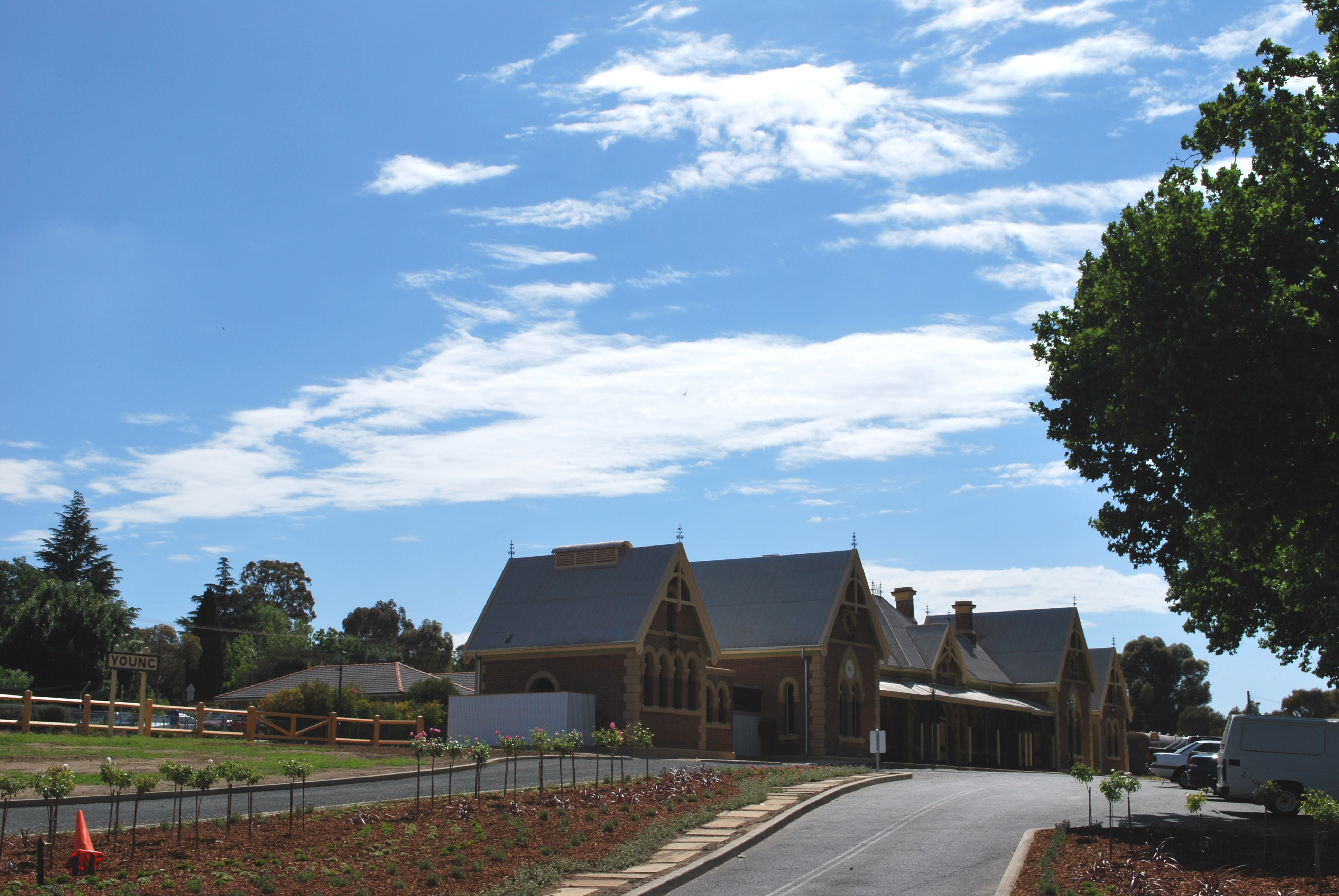 Train station at Young, New South Wales